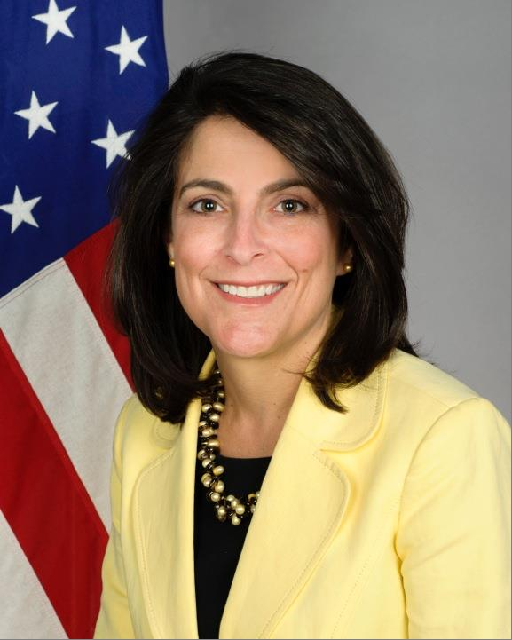 U.S. Ambassdor to Qatar Dana Shell Smith